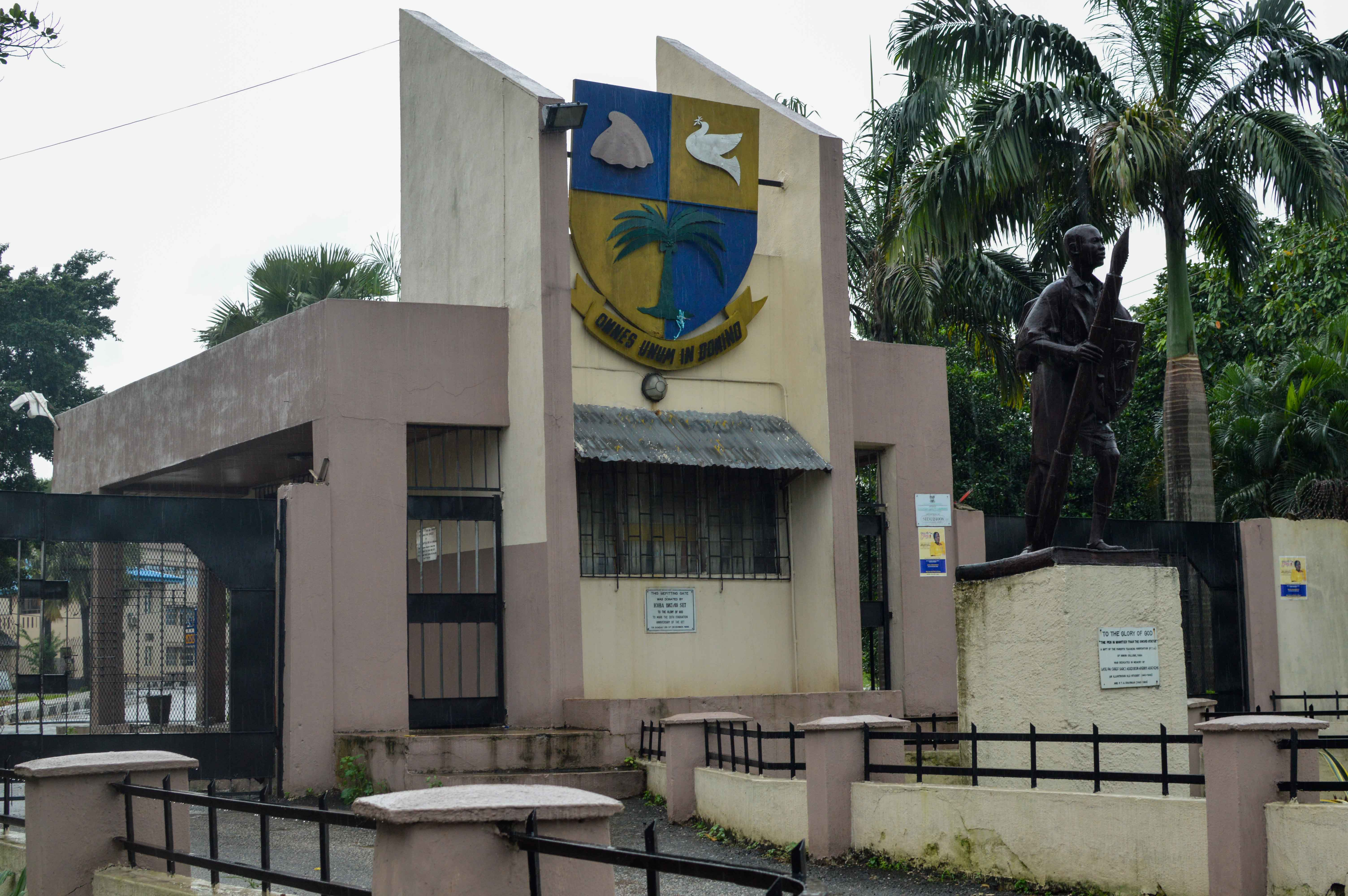 cross segment of igbobi college front view